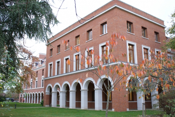 Ann's Court Building